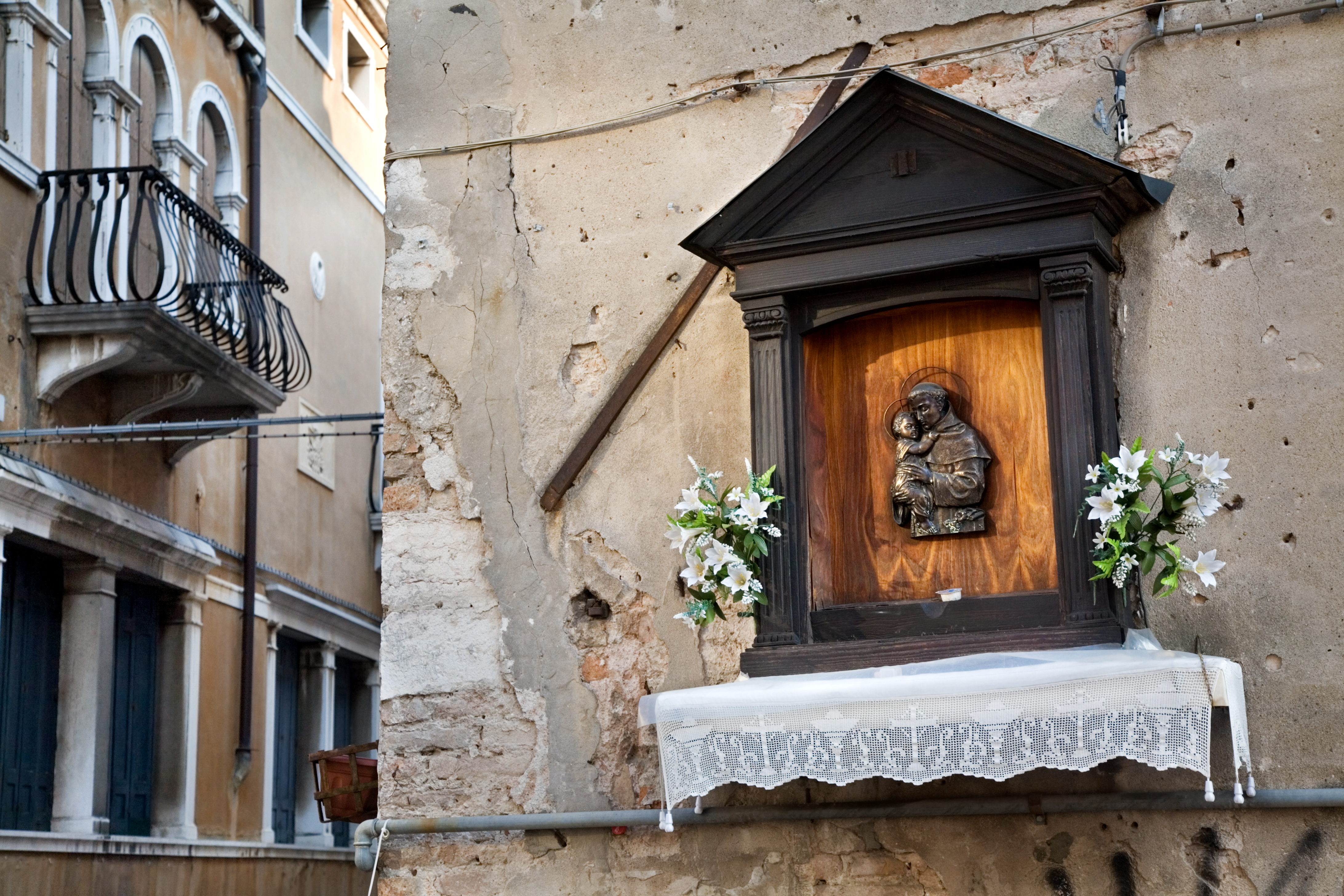 A home altar by the street. Venice, Italy 2009